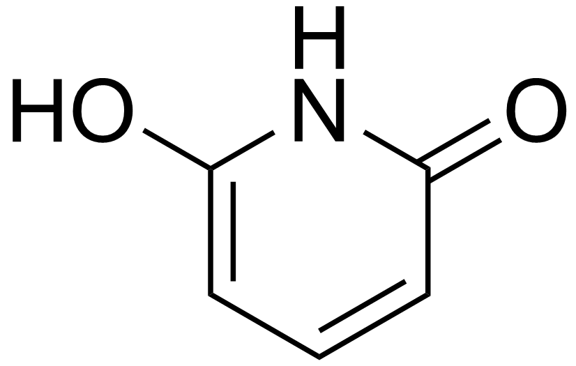 Chemical structure of 2,6-dihydroxypyridine (6-Hydroxy-2(1H)-pyridinone)in its predominant tautomer